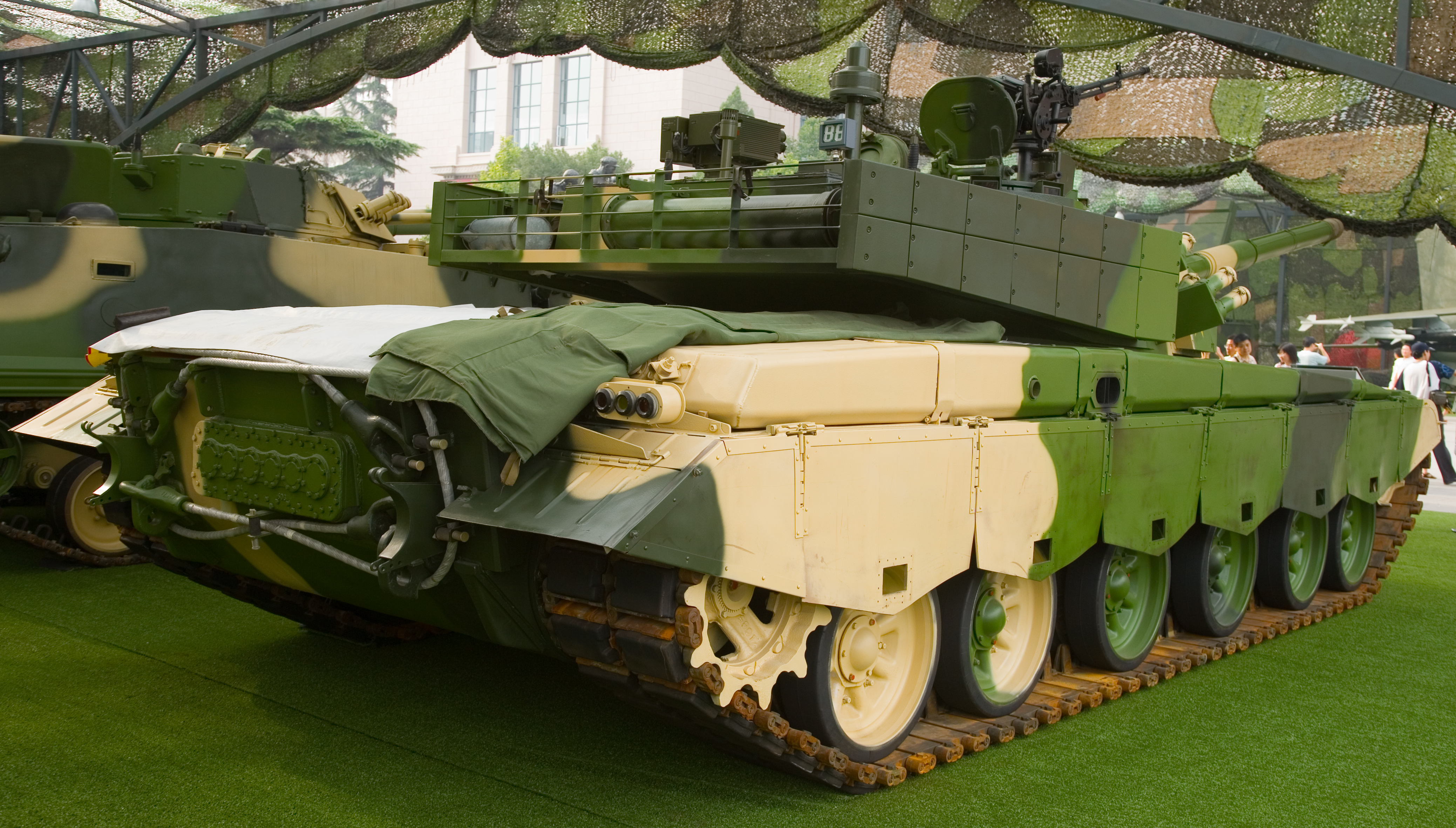 A Chinese Type 99 Main Battle Tank on display at the Beijing Military Museum as part of the "Our troops towards the sky" exhibition.